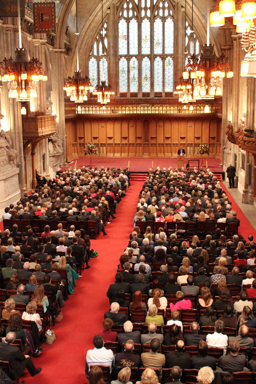 Bill Bryson delivering a Gresham College lecture in the Guildhall, London (Sept 30, 2010)